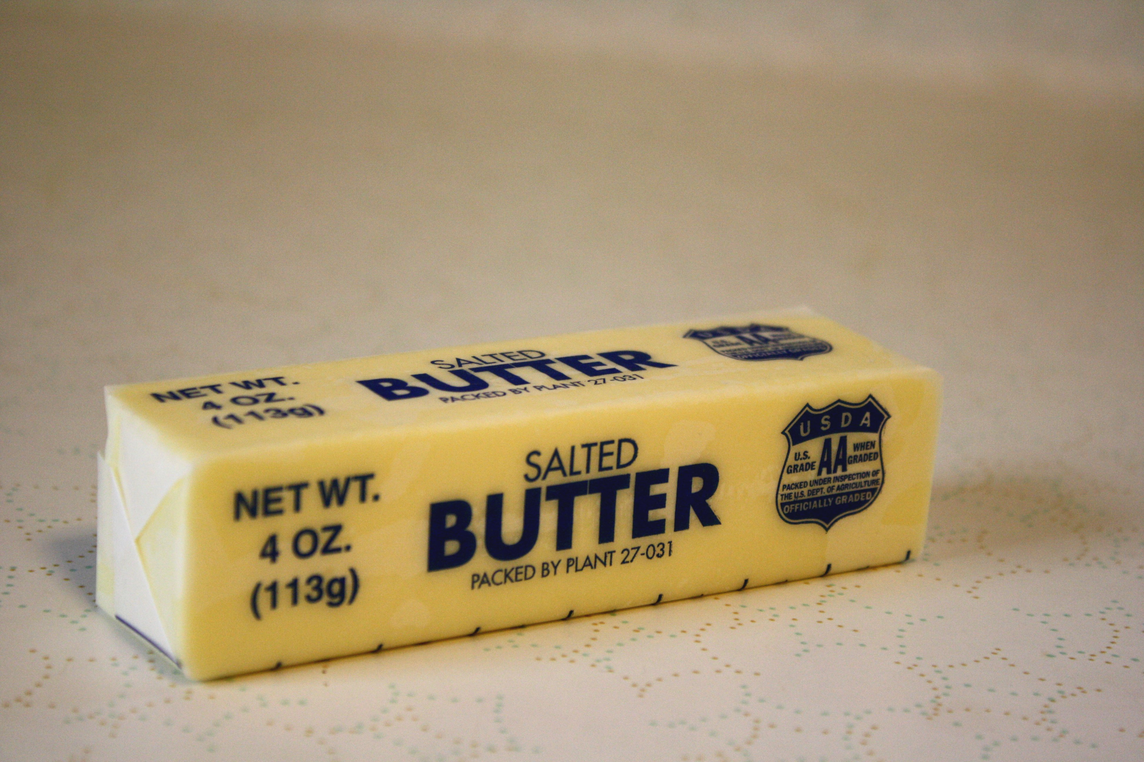 Photo of a wrapped stick of salted butter.